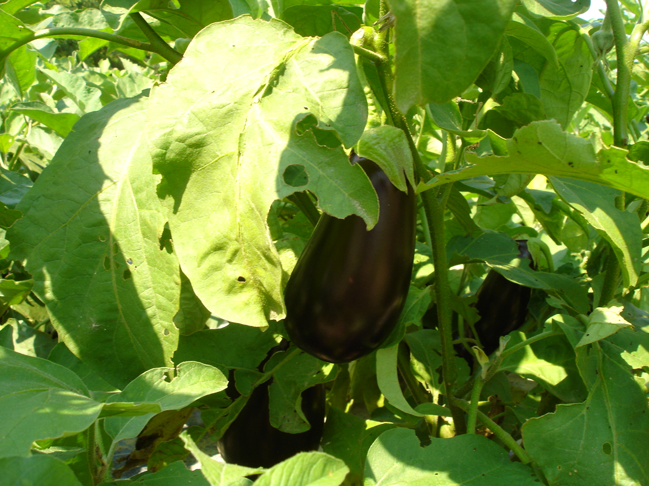 Growing eggplant on a field in Macedonia